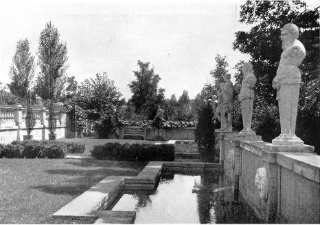 Wall pools of southern garden - the gardens of Robert Goelet, Esq., at Glenmere, Chester, New York.